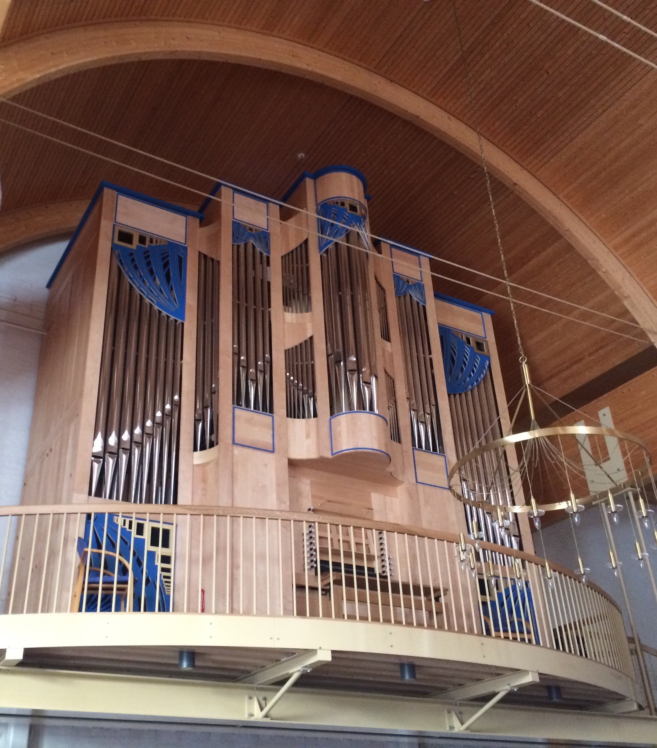 The New organ at Konnerud Church, Drammen, Norway